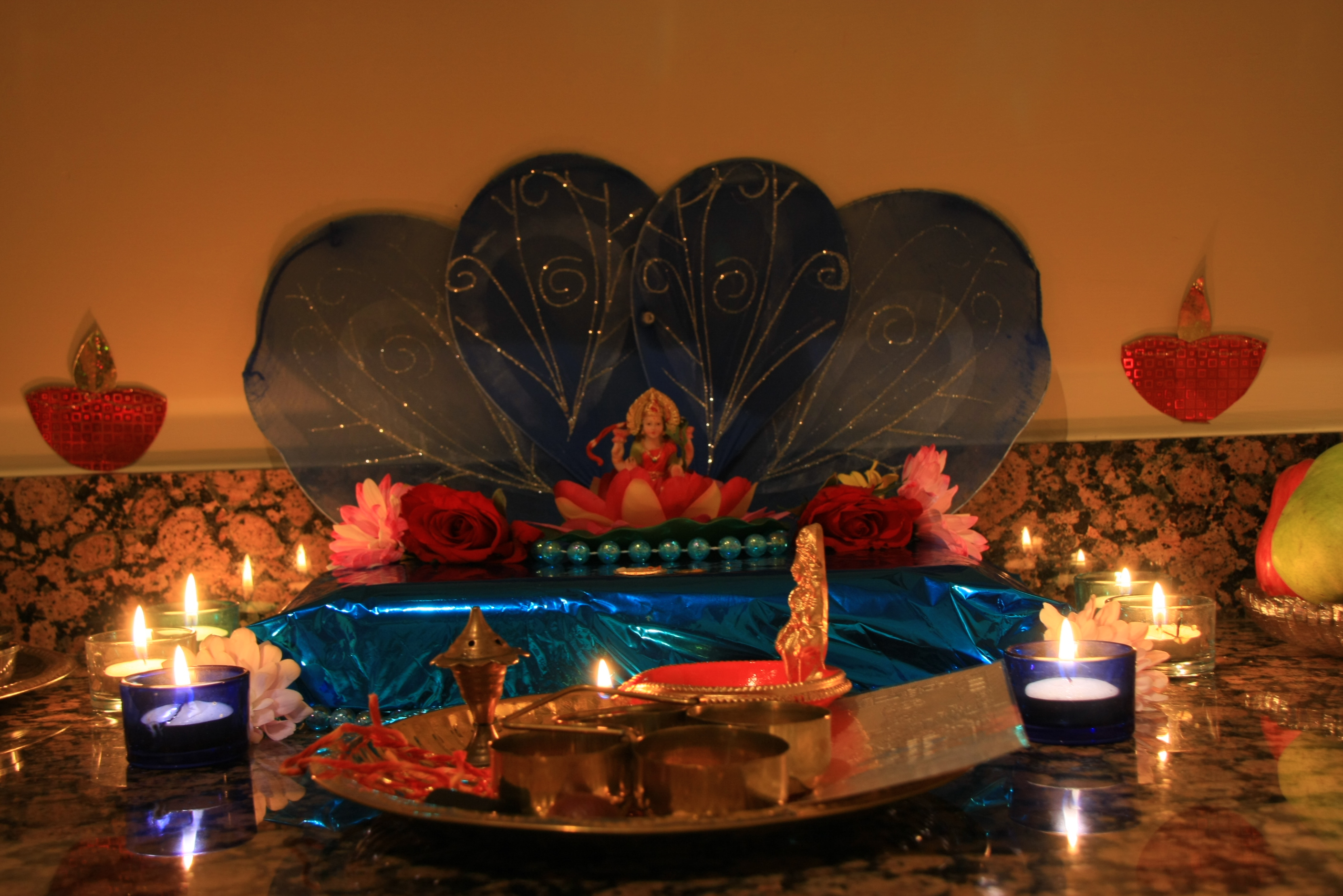 Prayers are offered to Lakshmi, the goddess of wealth and prosperity Diwali, the festival of lights Deepavali, Divali